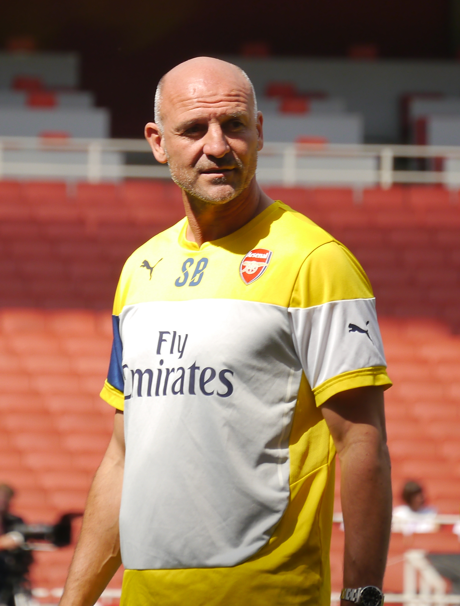 Steve Bould during Arsenal Members Day 2014.